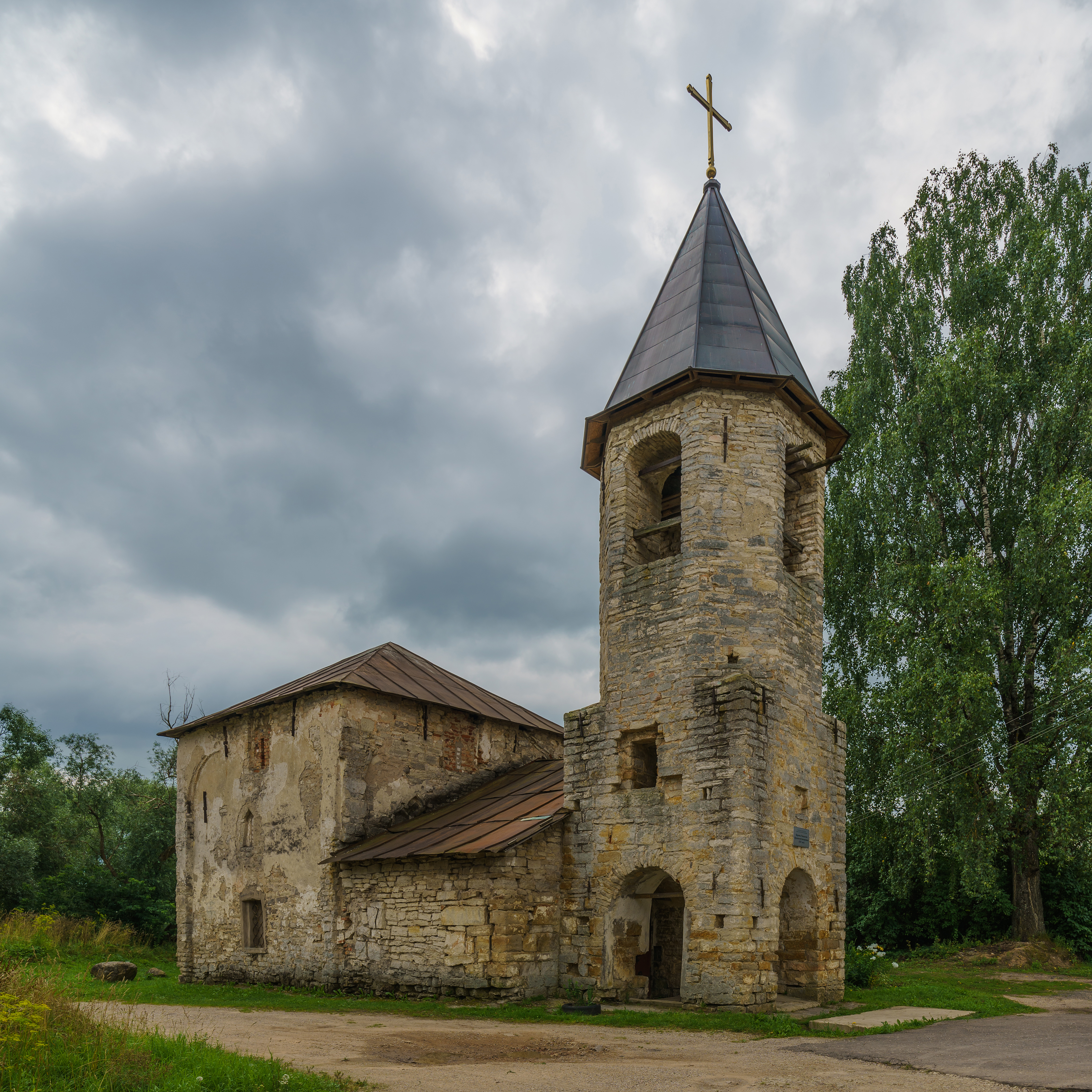 Our Lady's Nativity Church in Porkhov, Pskov Oblast, Russia.